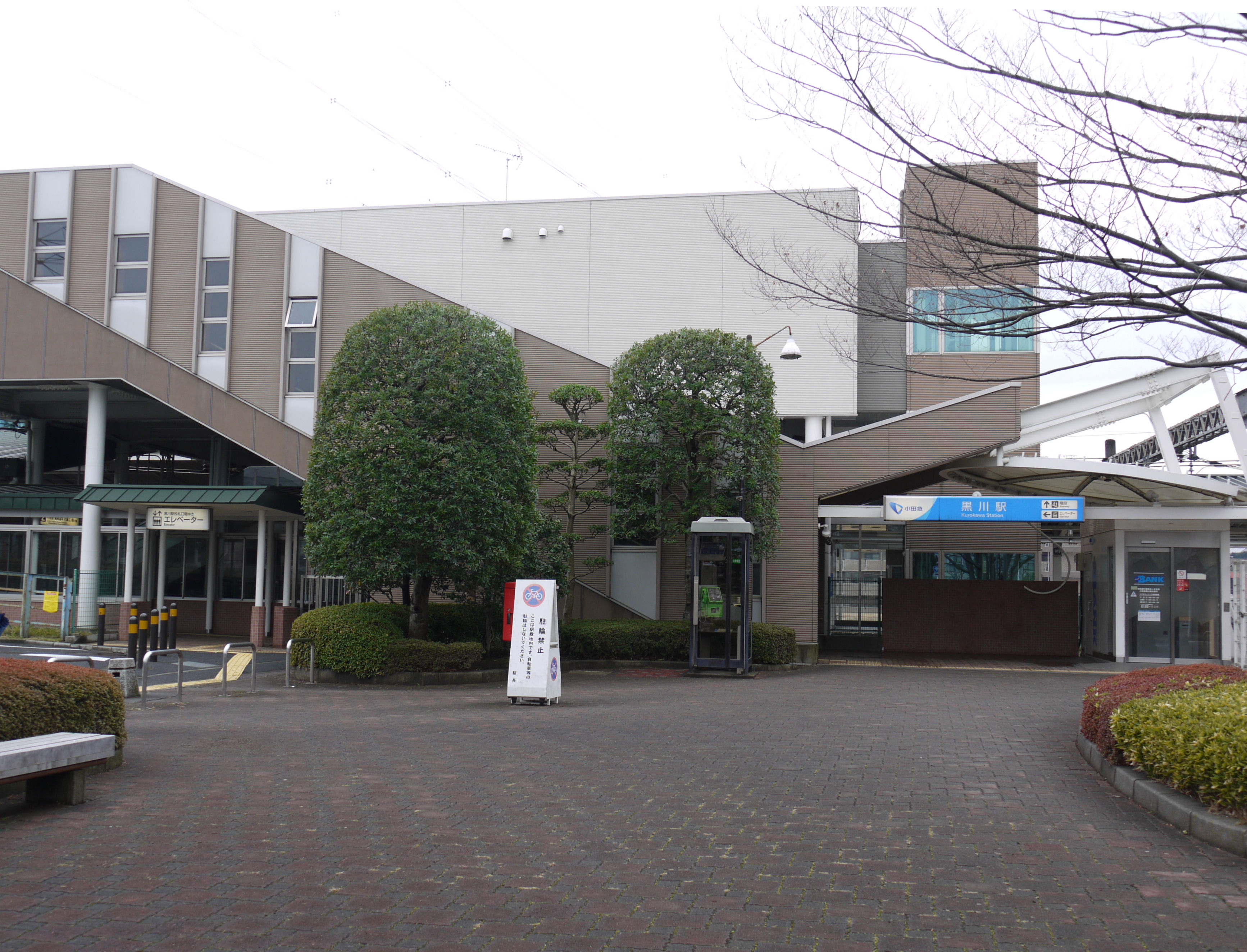 Odakyu Tama line Kurokawa station North entrance